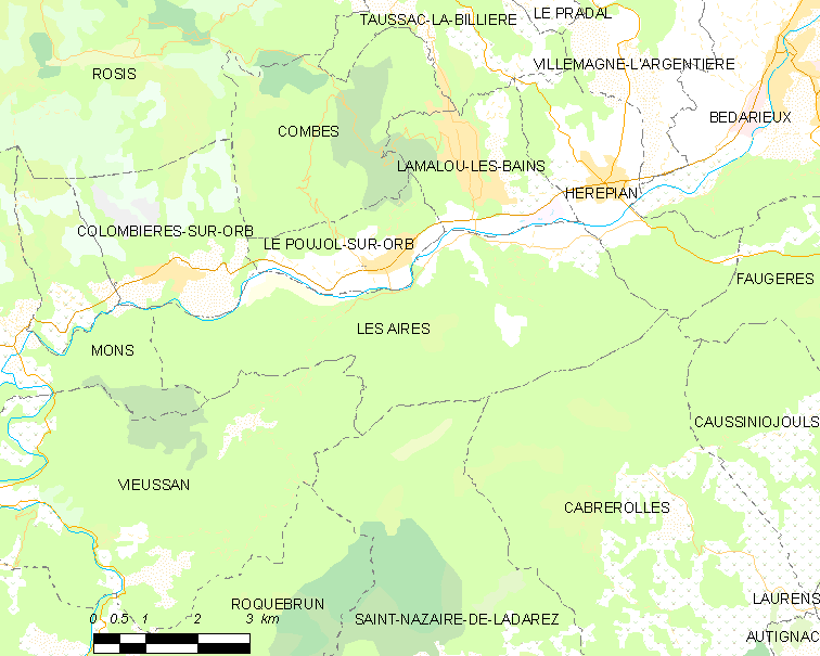 Map commune FR insee code 34008.png - Les Aires